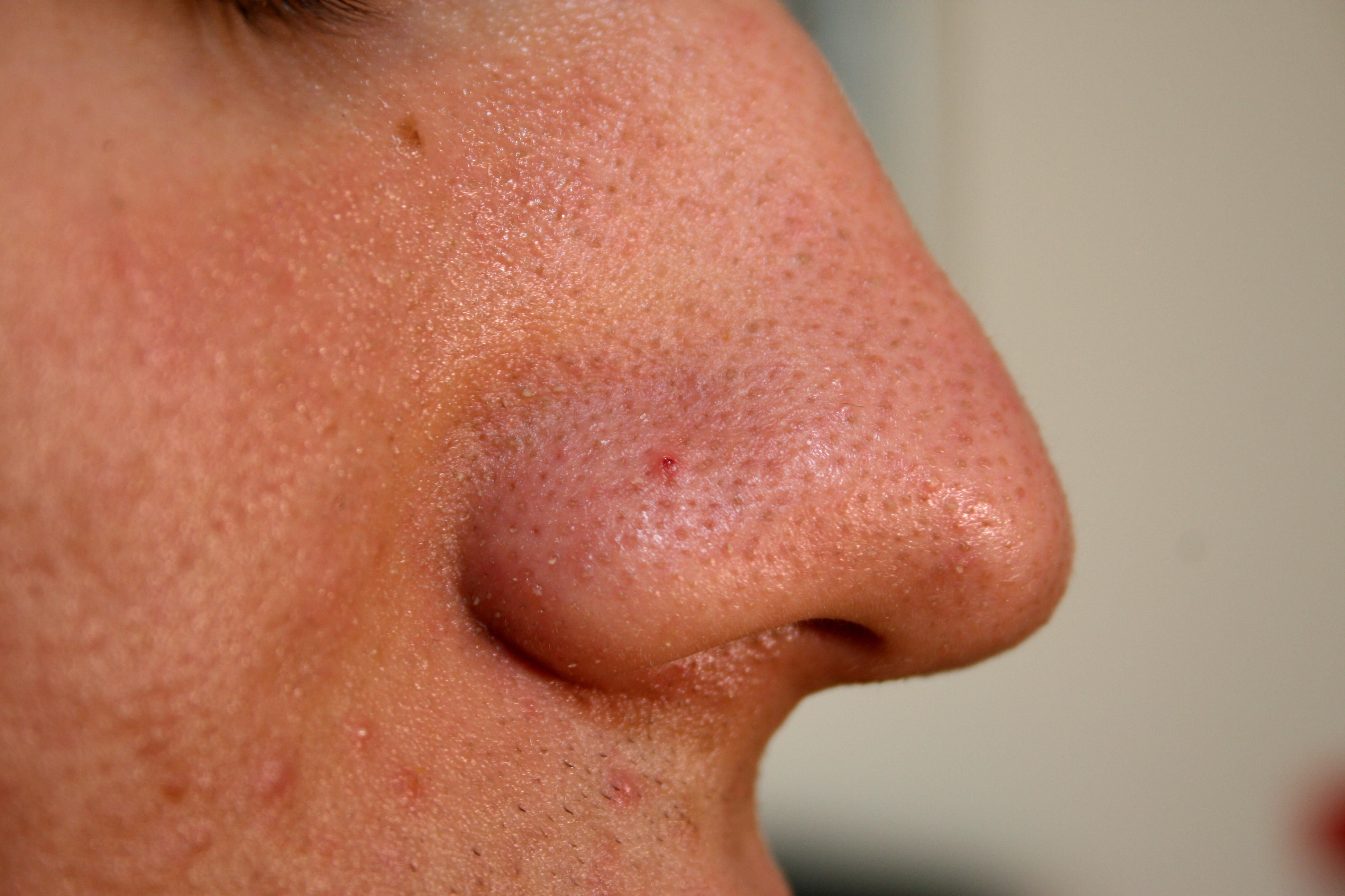 Nose from a 20 years old male human.